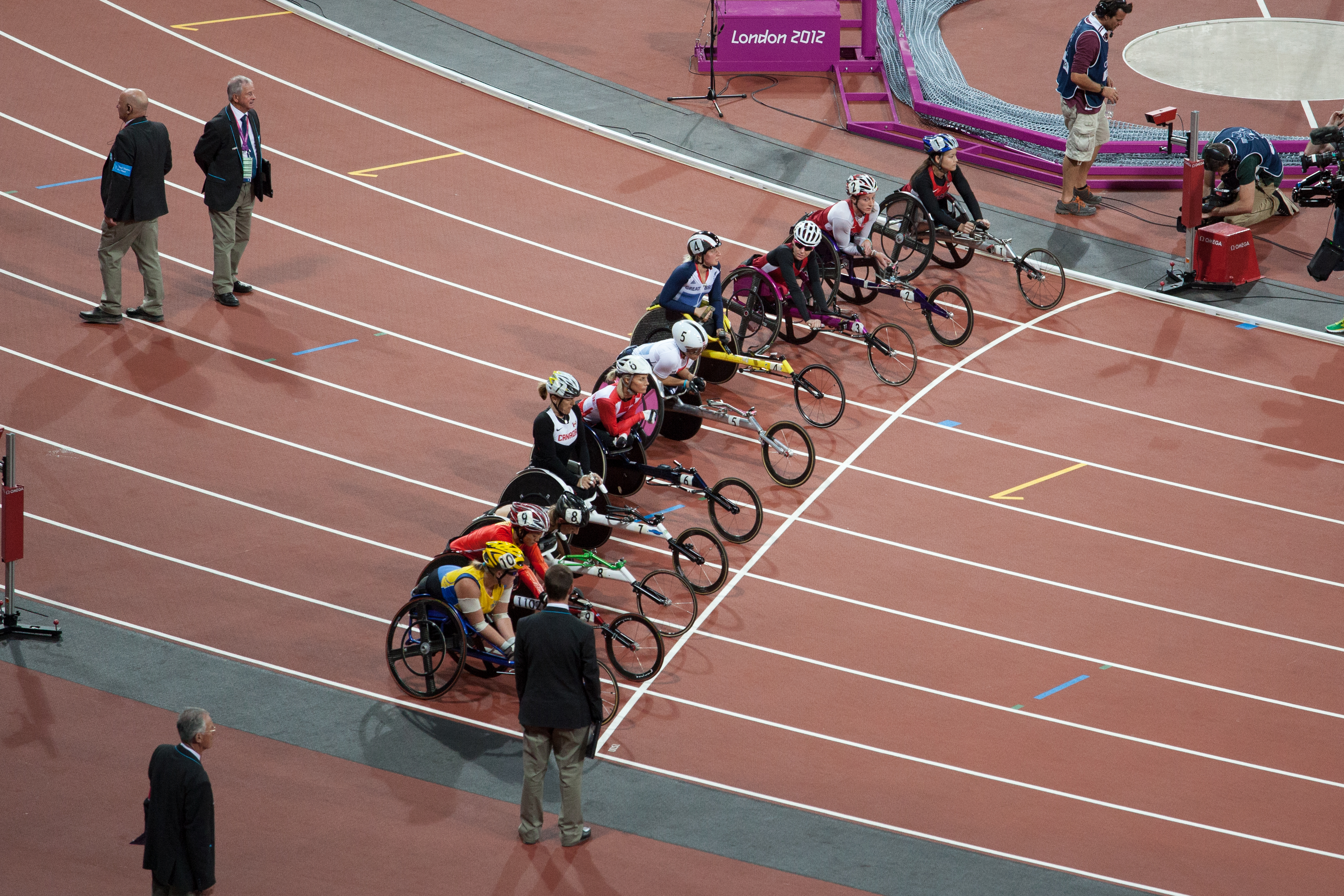 Paralympics 2012 - Women's 1500m - T54 (wheelchair racing).